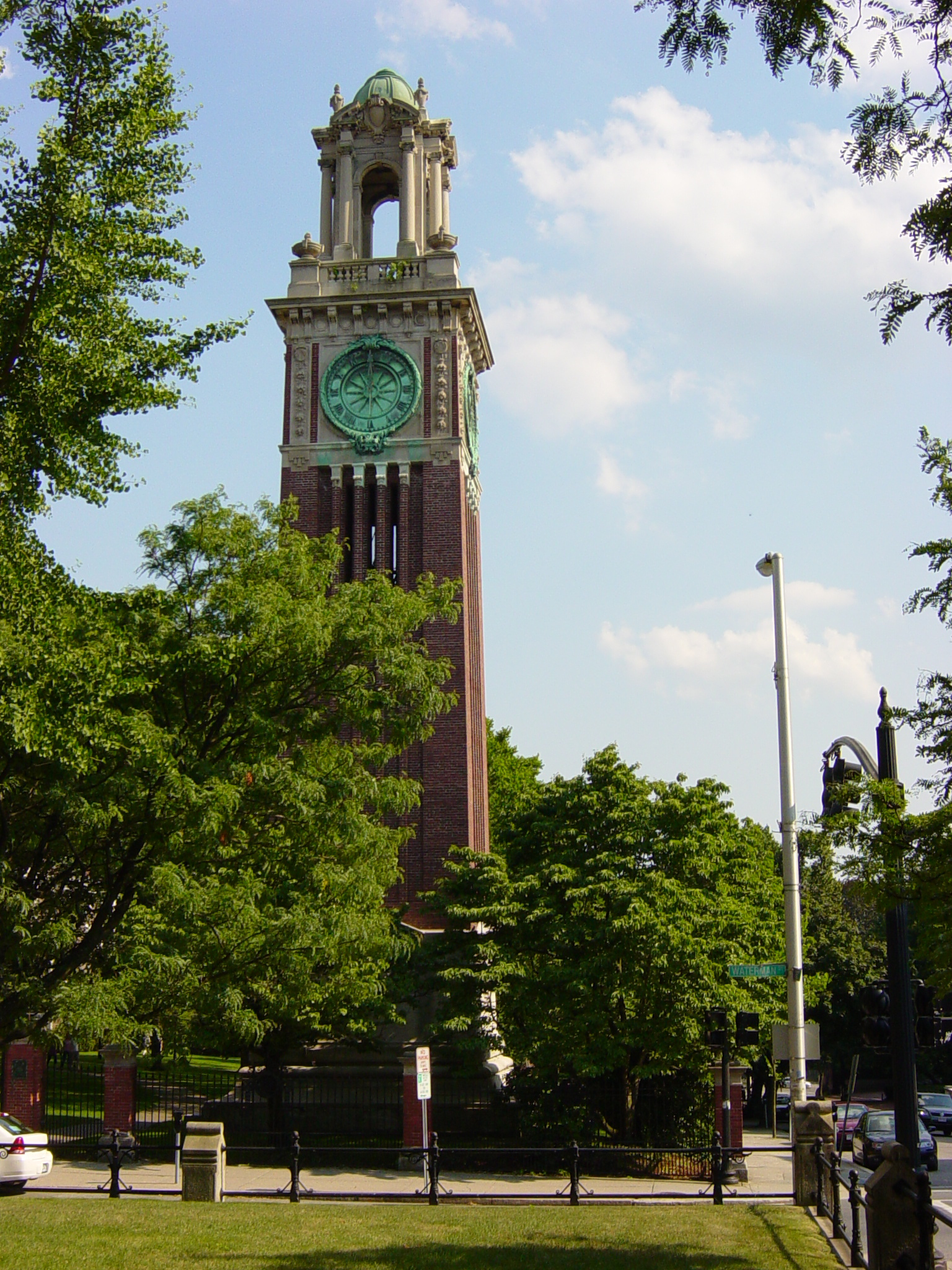 Carrie Tower at Brown University